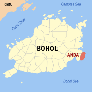 Map of Bohol showing the location of Anda